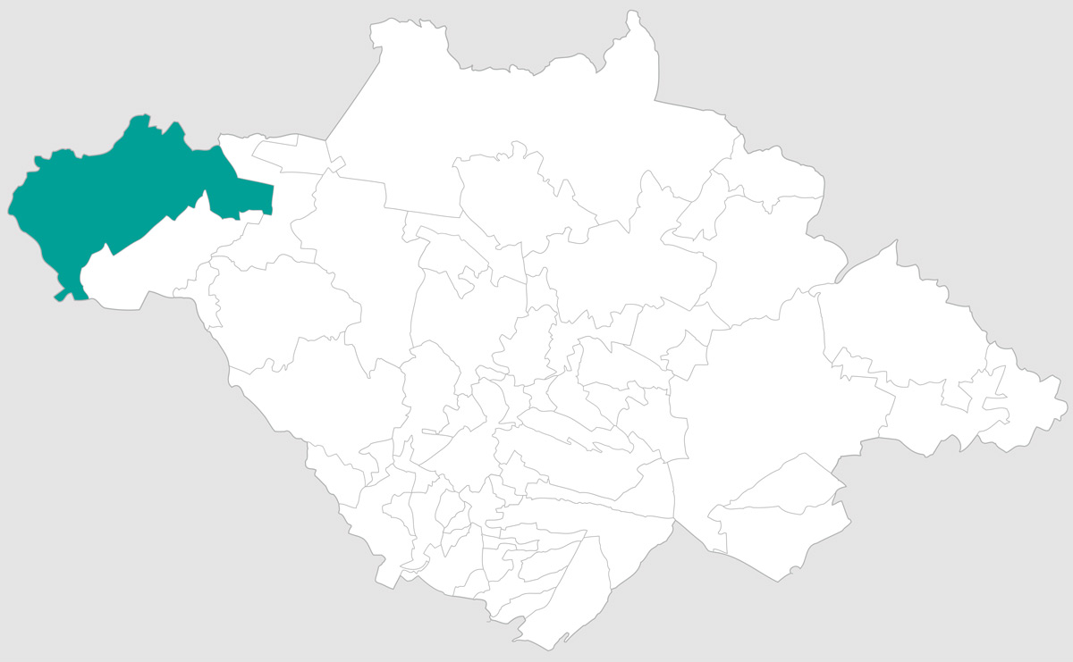 Municipality of Calpulalpan, Tlaxcala, Mexico